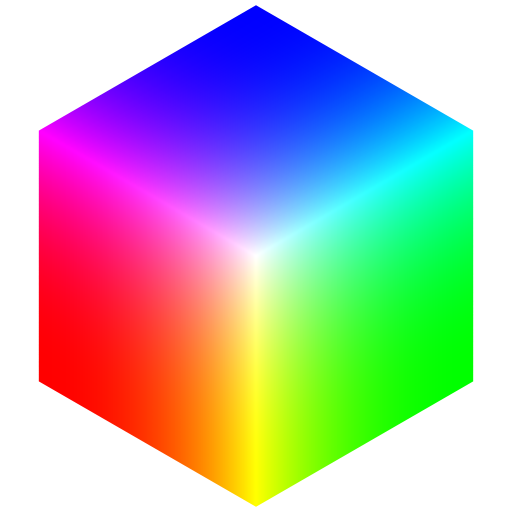 White corner of an RGB color cube in isometric projection